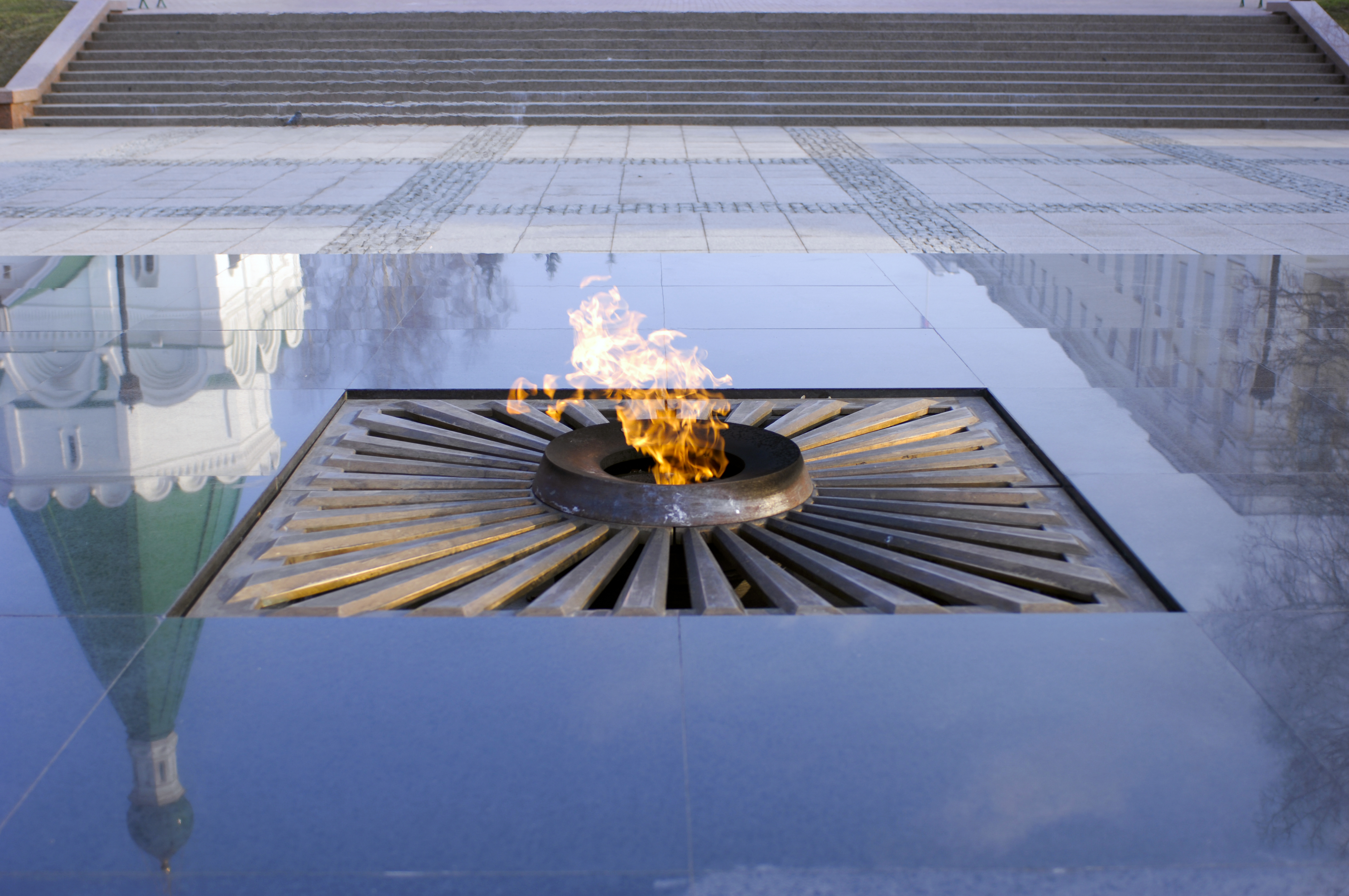 A memorial flame on the grounds of the Nizhny Novorod Kremlin in honor of the residents who died during World War II. The reflection is of the Michael the Archangel Cathedral.